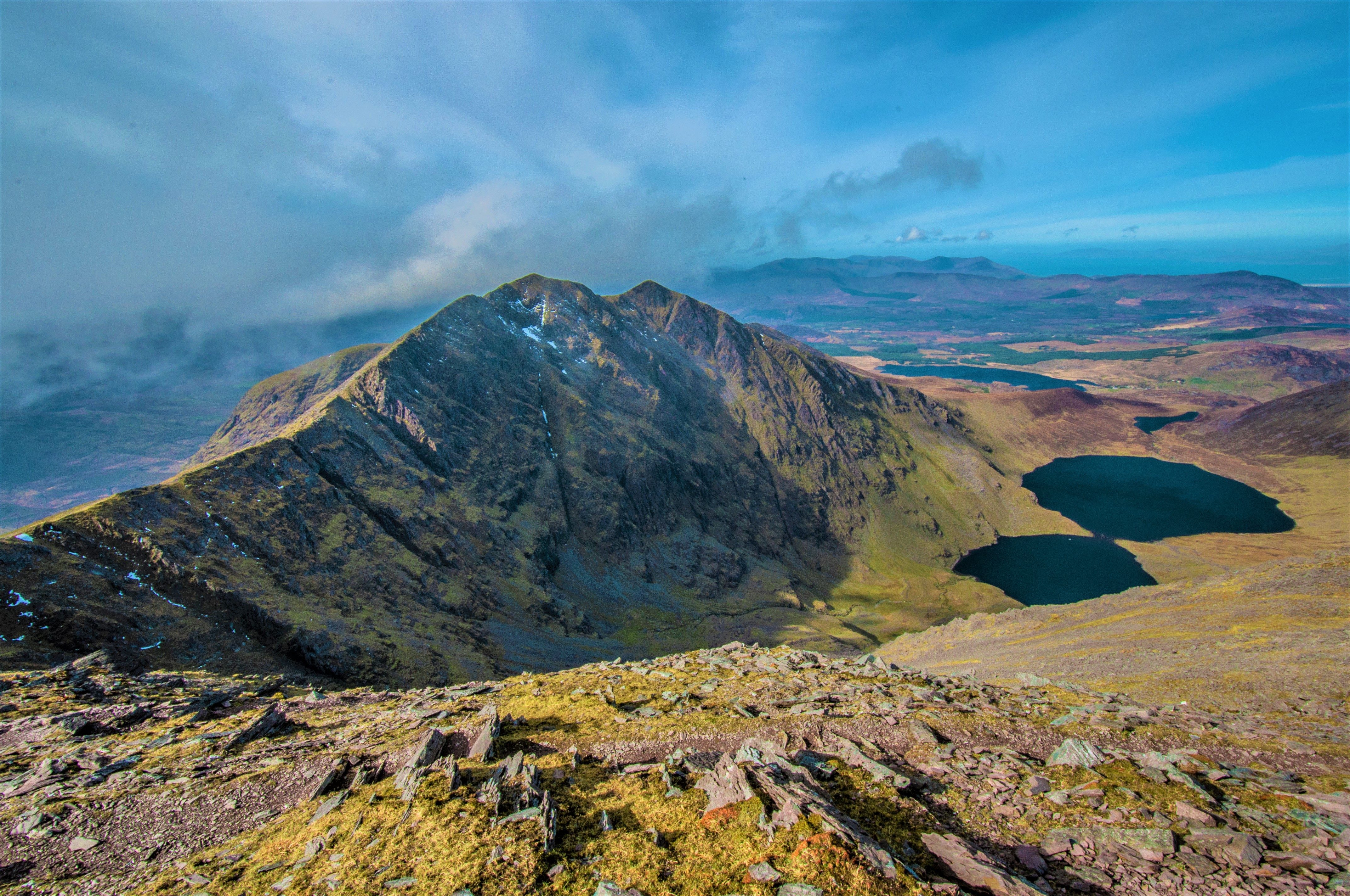 This is an image of the Biosphere Reserve or a Geopark: Killarney National Park